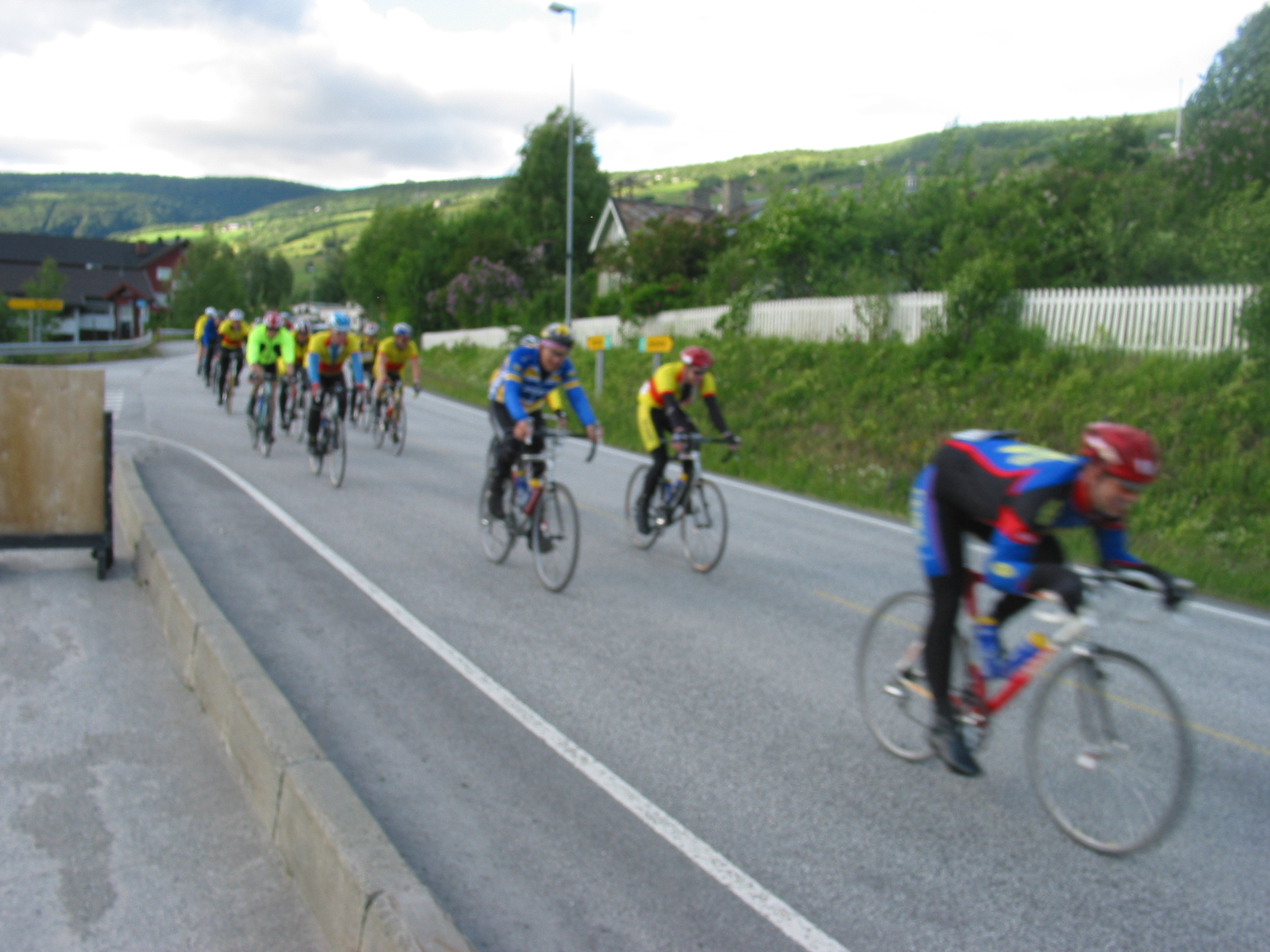 Participators in the 2008 Trondheim-Oslo bicycling contest pass through Hundorp in Oppland. The red building in the background is the local town hall.